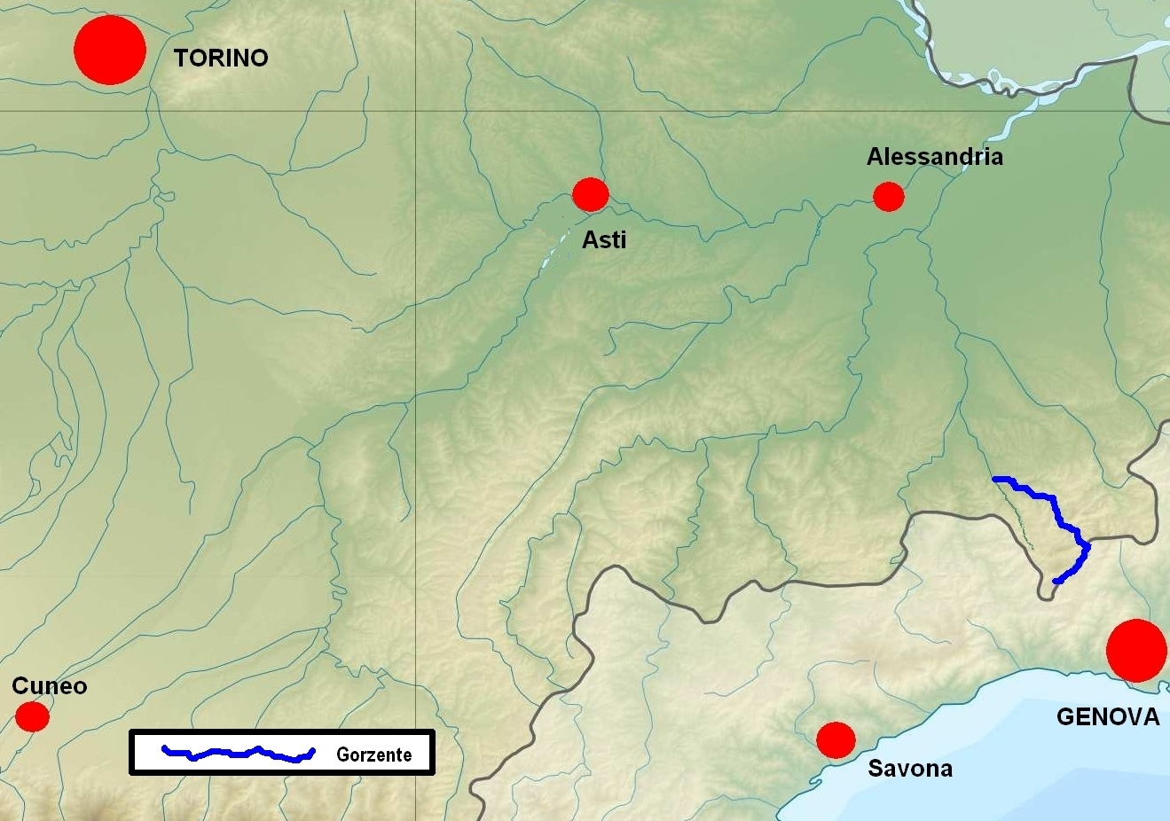 location within southern Piedmont (Italy)